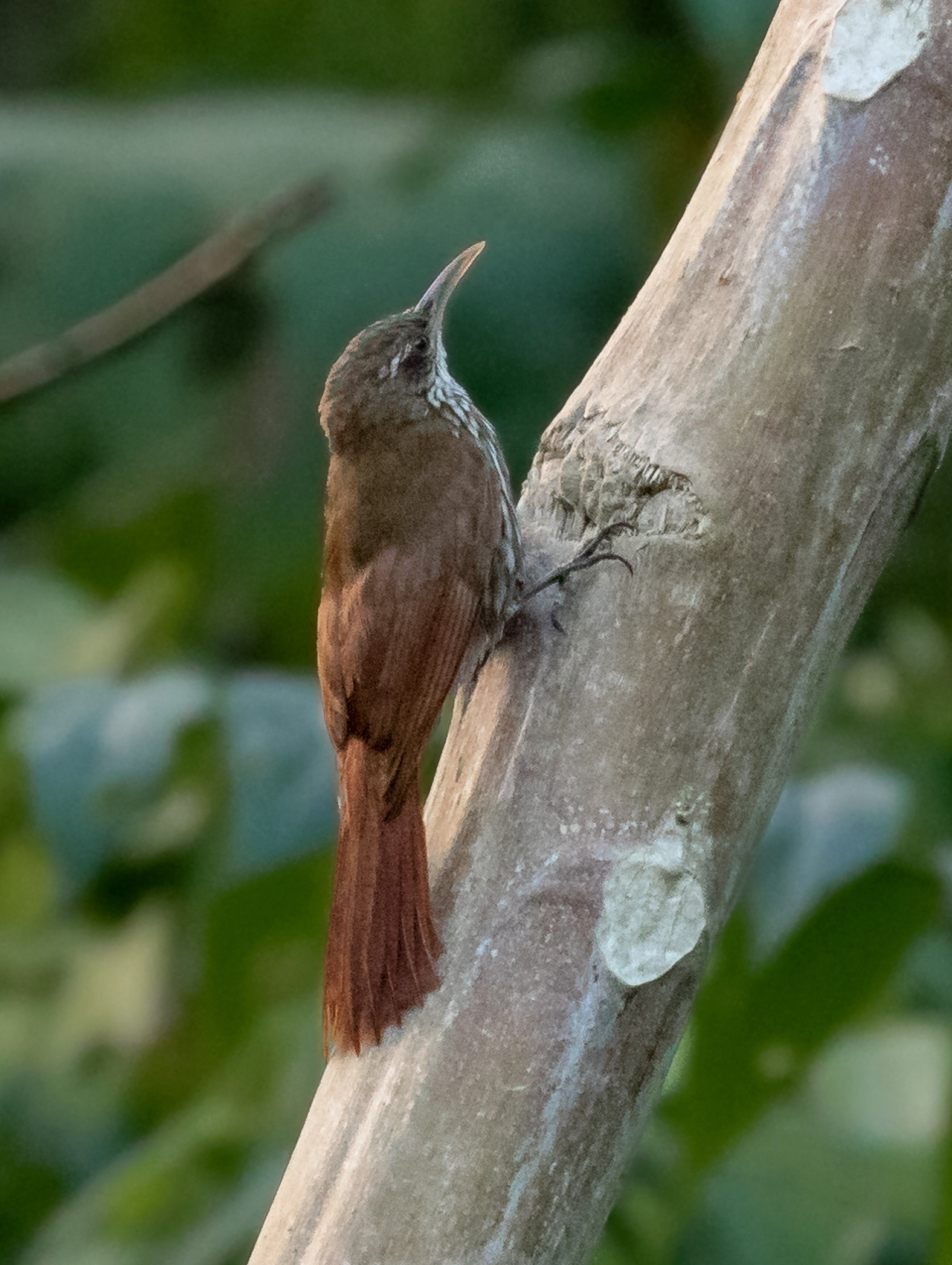 Layard's Woodcreeper; Parauapebas, Para, Brazil